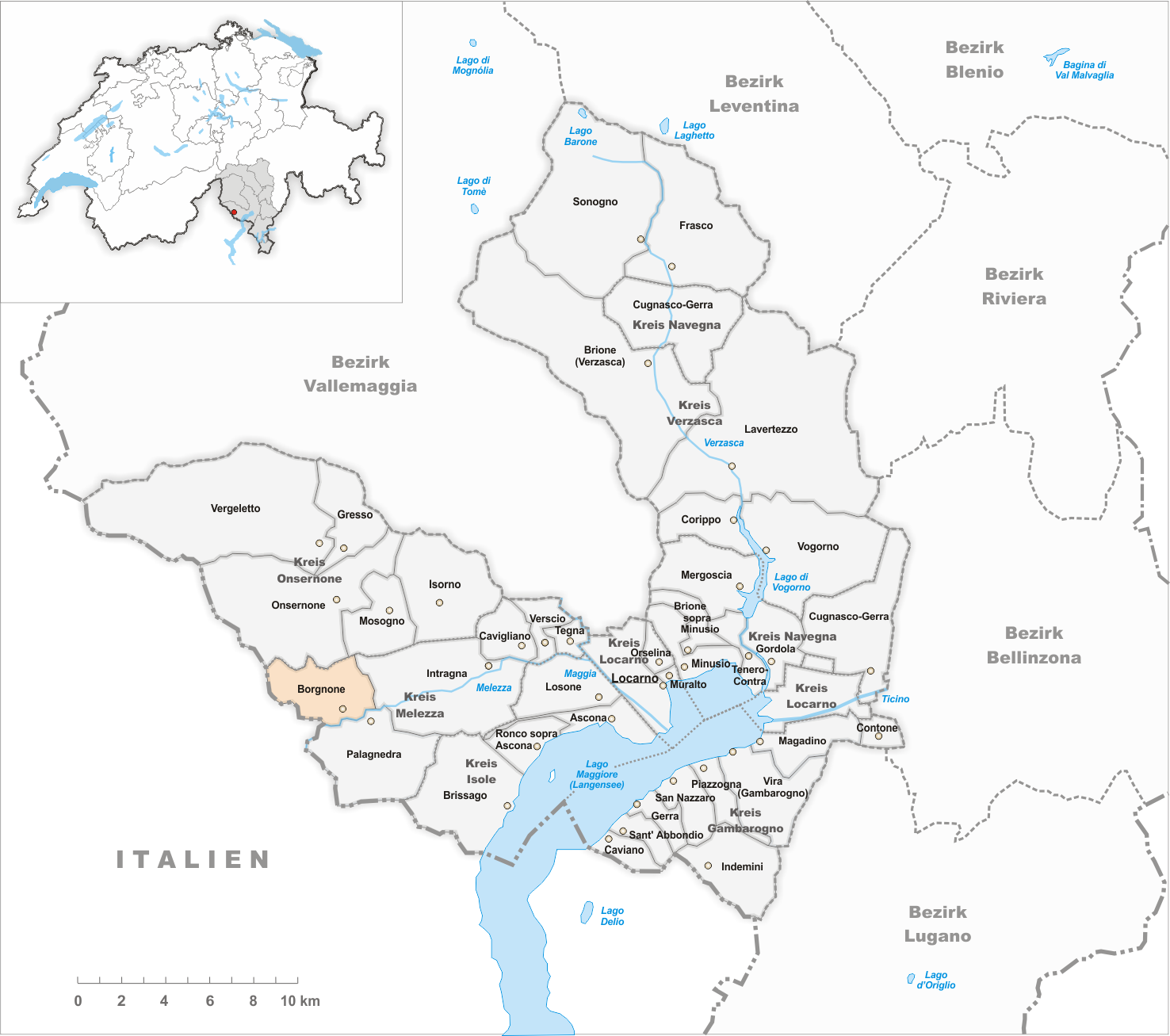 Municipality Borgnone